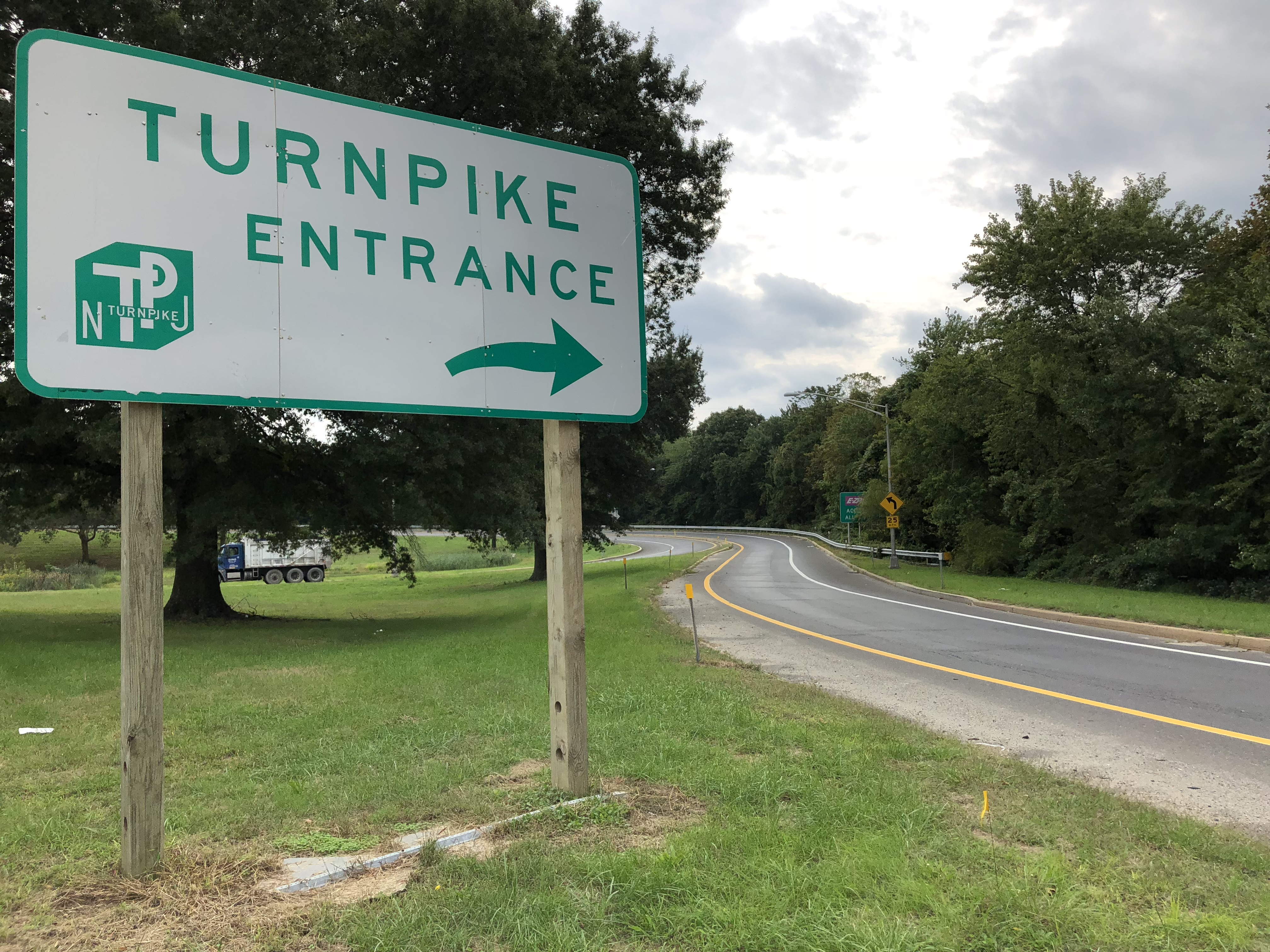 The entrance ramp to New Jersey State Route 700 (New Jersey Turnpike) from southbound New Jersey State Route 168 (Black Horse Pike) in Bellmawr, Camden County, New Jersey